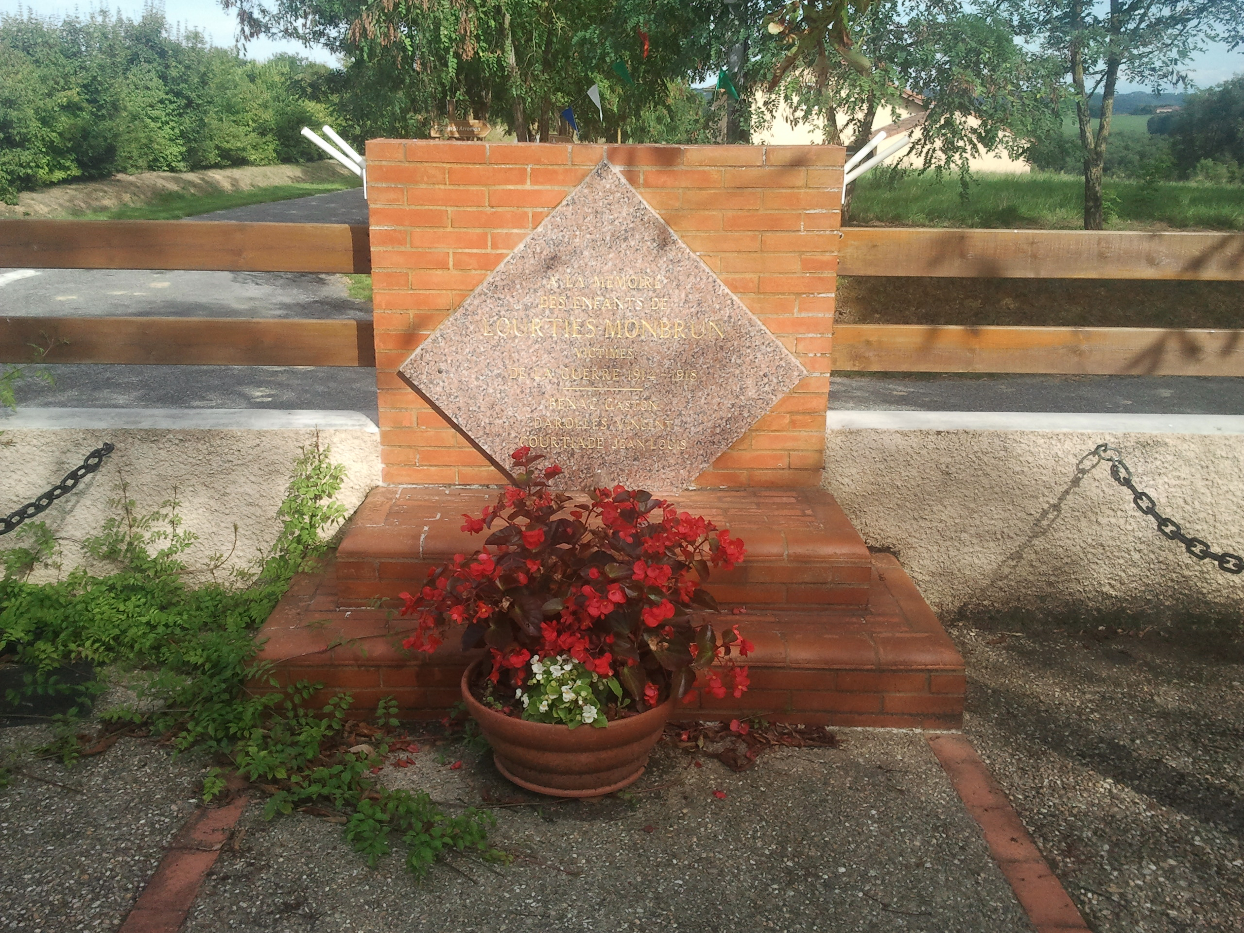 The war memorial in Lourties-Monbrun